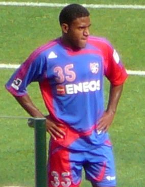 Rychely from FC Tokyo